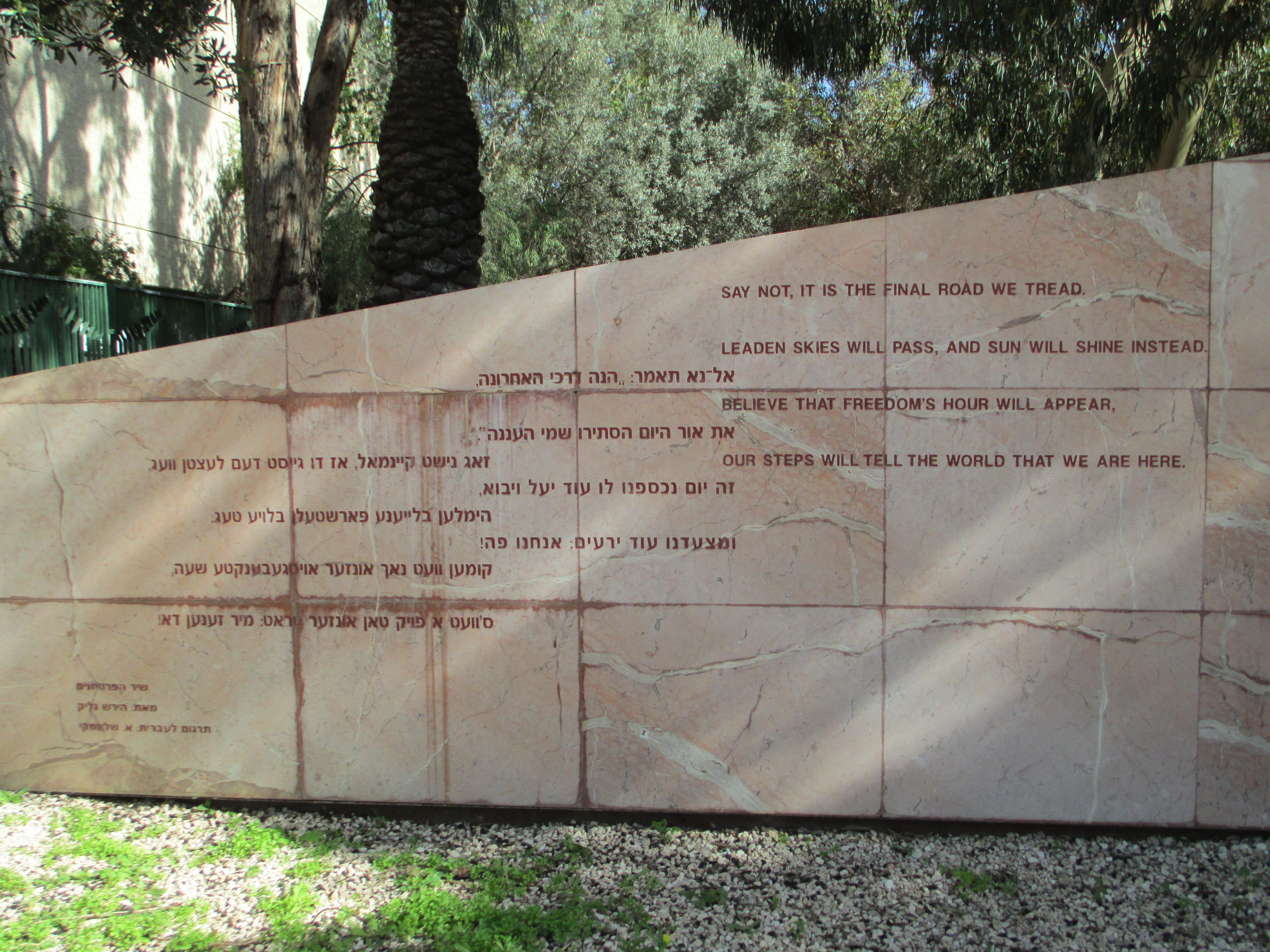 jewish partisans anthem in the partisans memorial in giv'ataym, israel מילות הימנון הפרטיזנים באנדרטת הפרטיזנים בגבעתיים